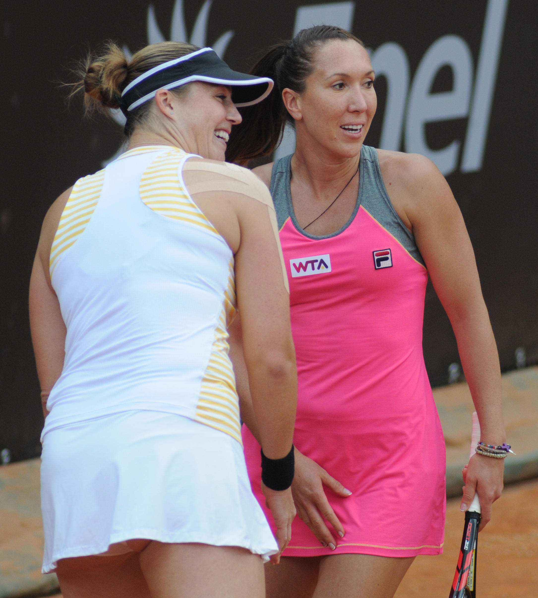 Alisa Kleybanova and Jelena Janković at the 2014 Internazionali BNL d'Italia